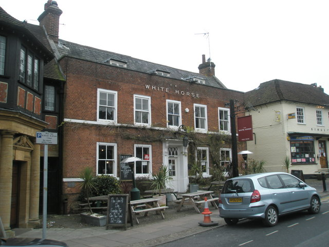 The White Horse, Haslemere High Street